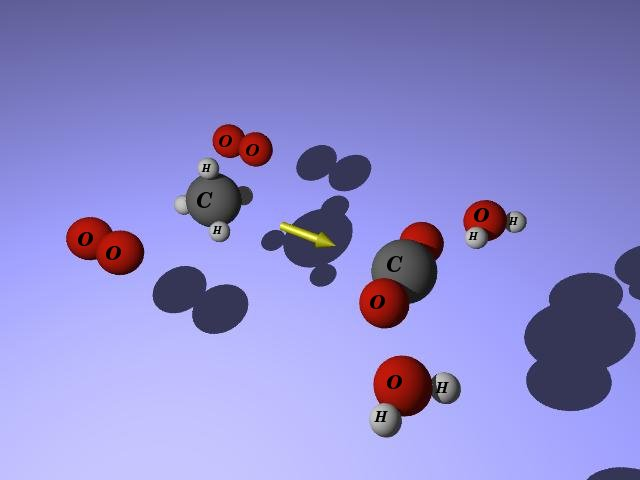 Author: David Gaya Created with KPovModeler